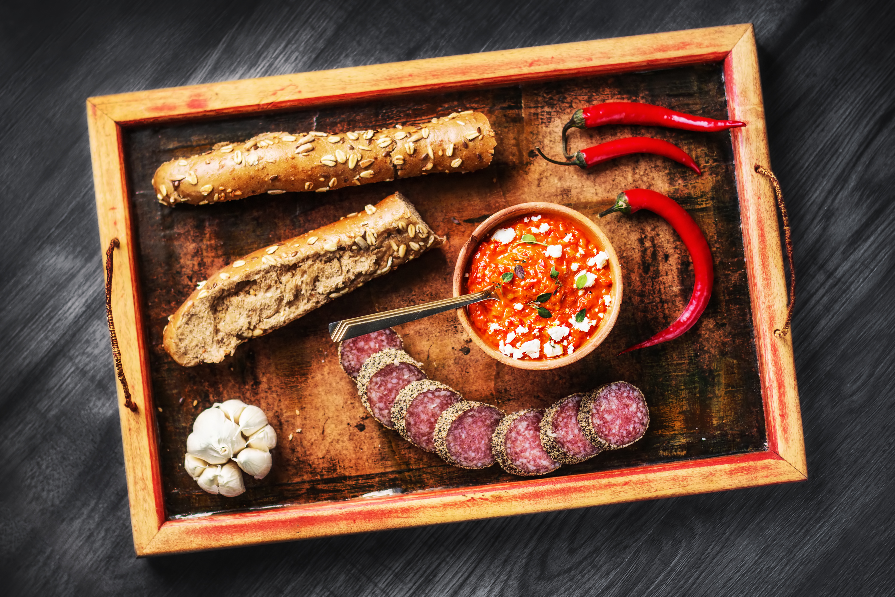 Traditionally served Macedonian ajvar with baguette, garlic, chili peppers and salami.